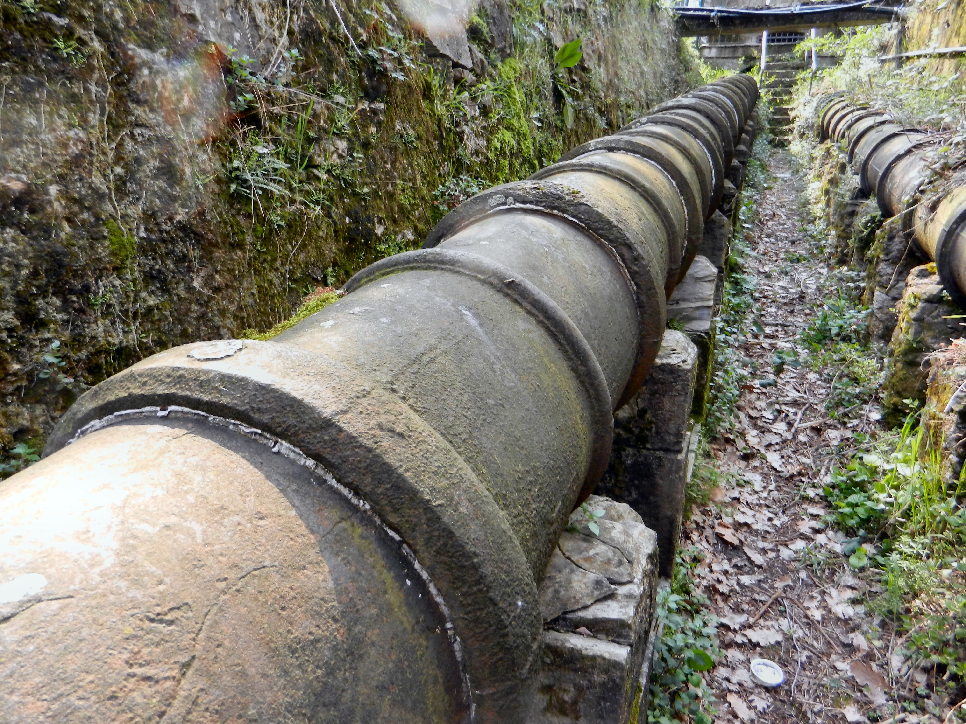 Genoa (Italy), quarter of Molassana, cast-iron pipes of historical aqueduct at the entrance of siphon bridge over the river Geirato